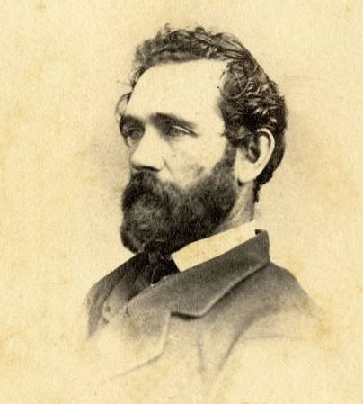 Samuel Abbot Cooley, albumen print self portrait